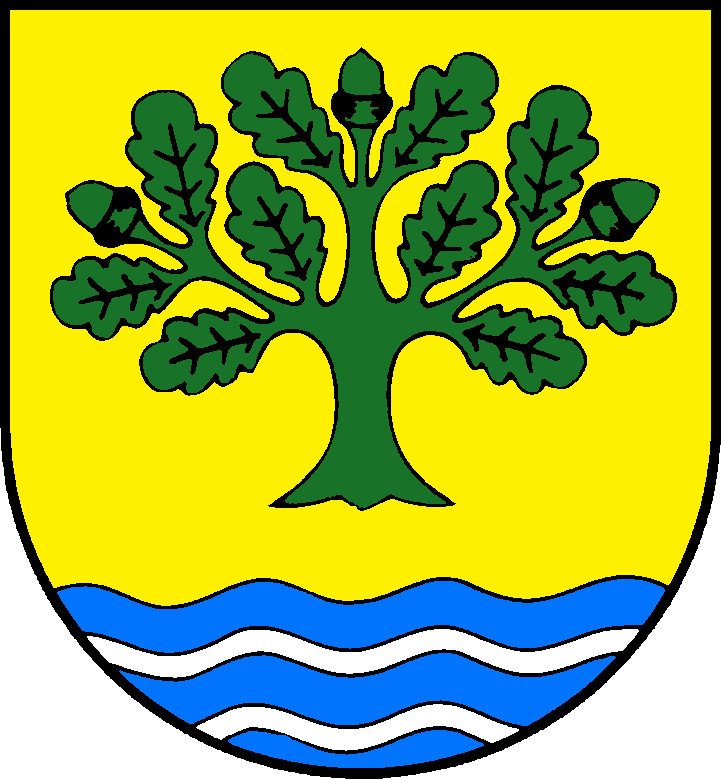 Coat of arms of the municipality Holtsee in Schleswig-Holstein, Germany.